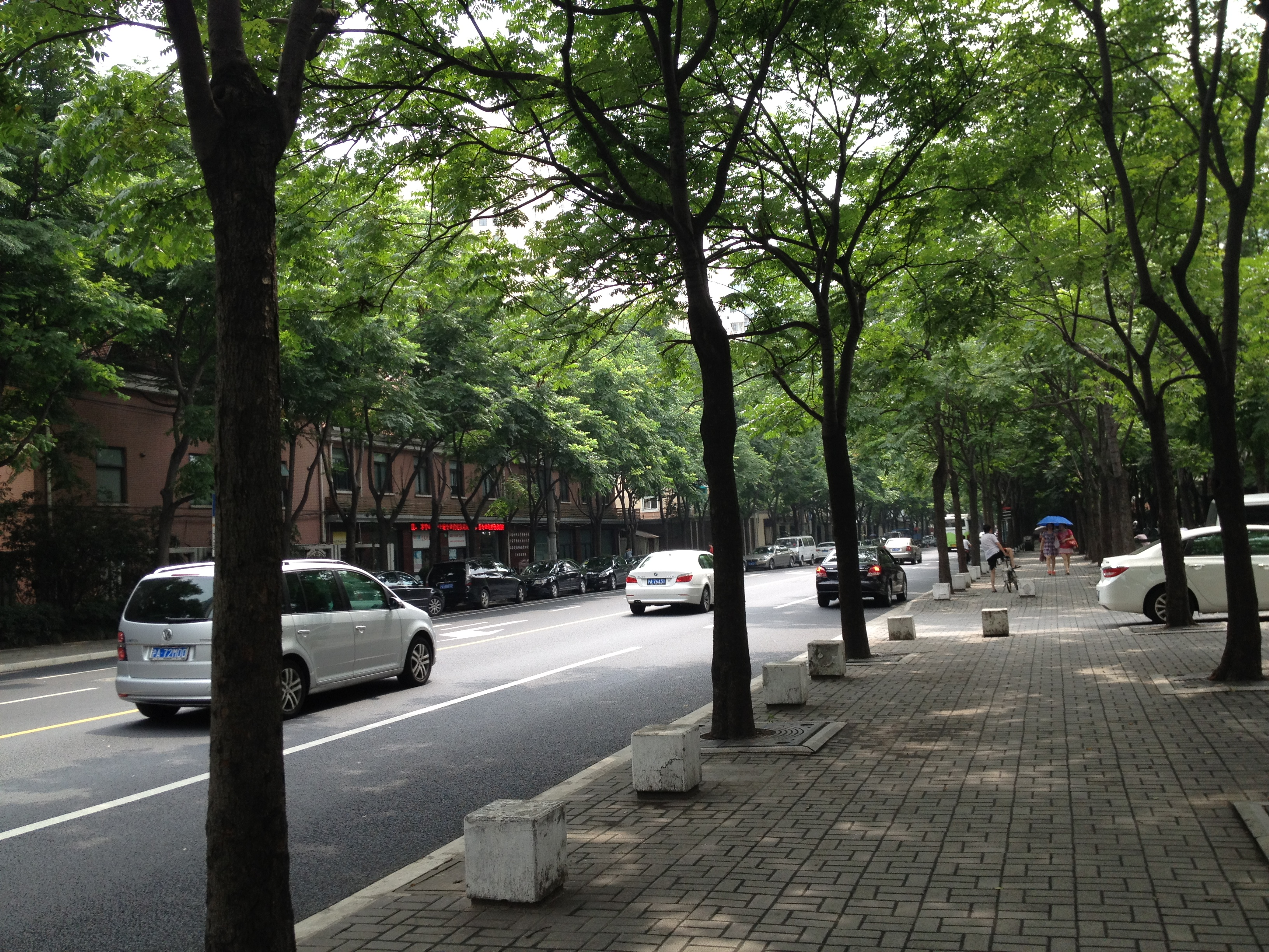 Changping Road Shanghai